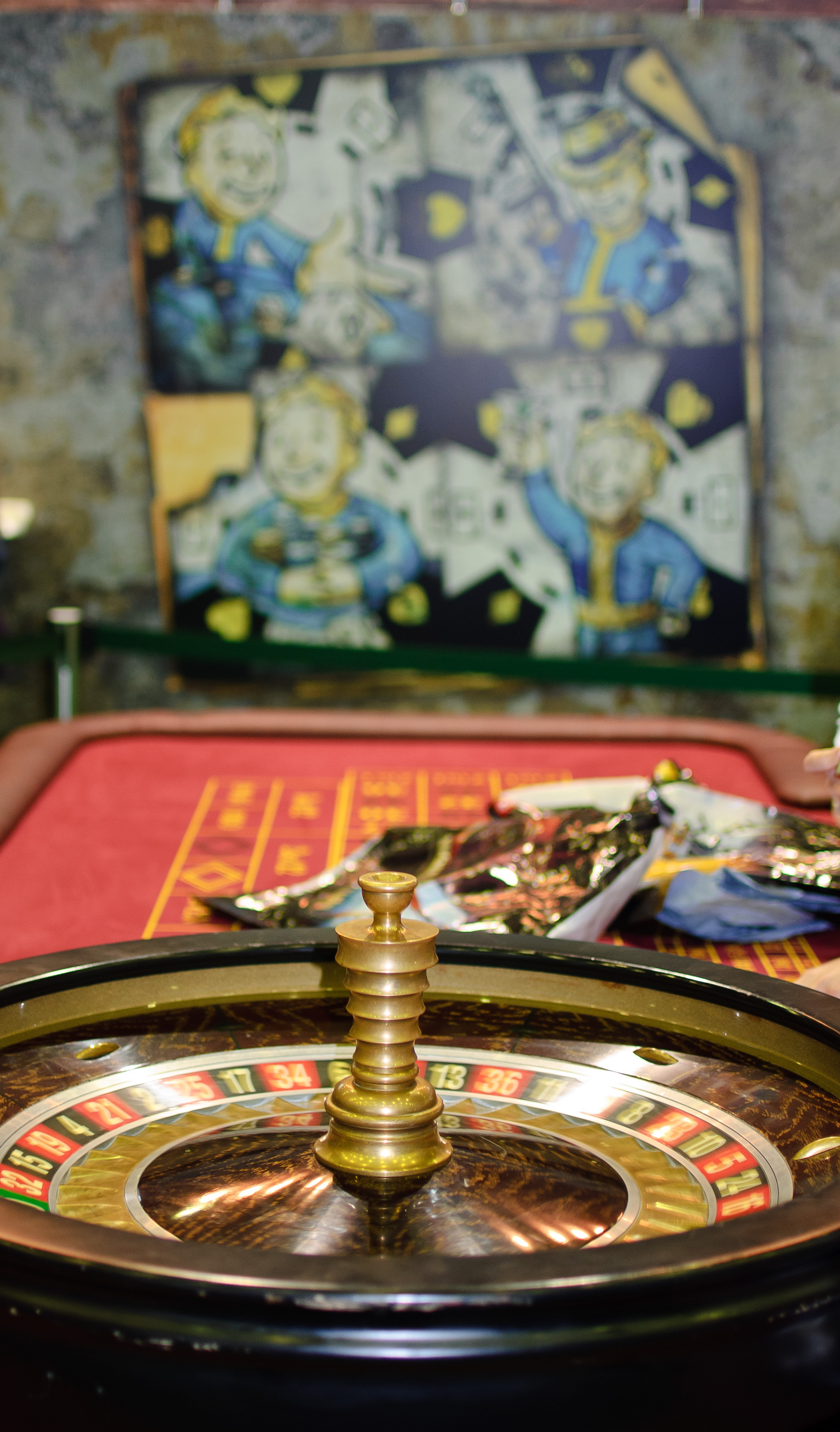 Taken on November 4, 2010 Nikon D40X